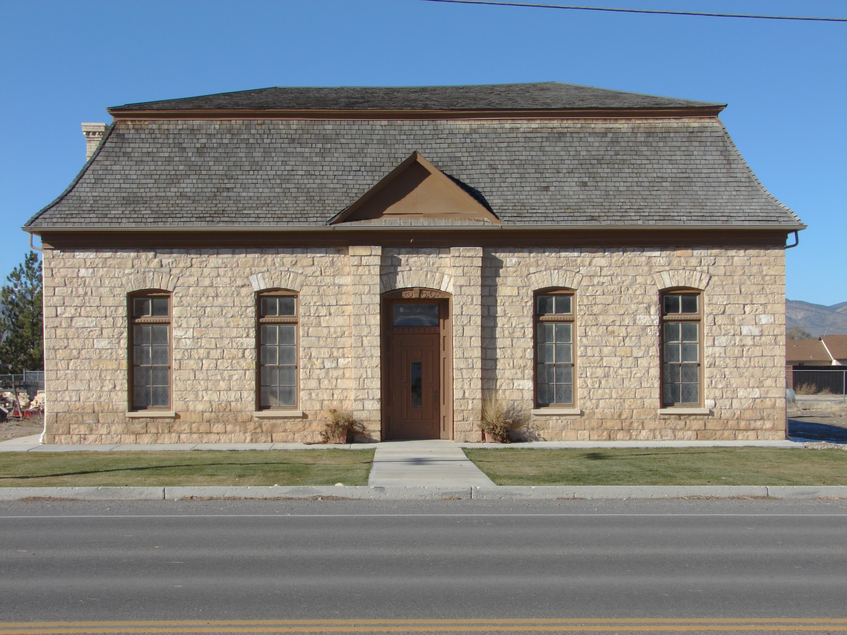 Looking across South Main Street at the Centerfield School and Meetinghouse in Centerfield, Utah, November 2015